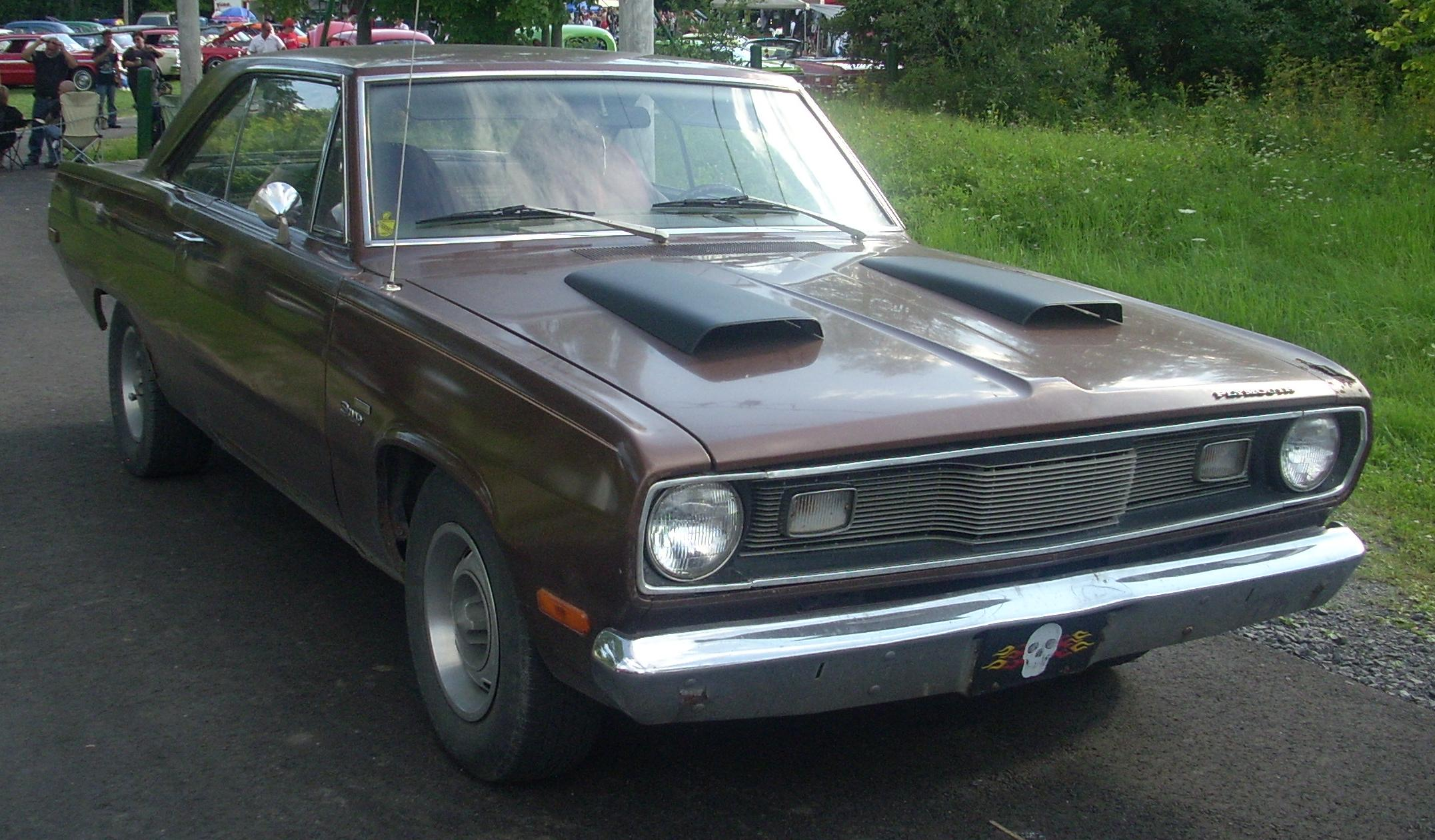 Plymouth Valiant Scamp photographed at the Rassemblement Rigaud Car Show.